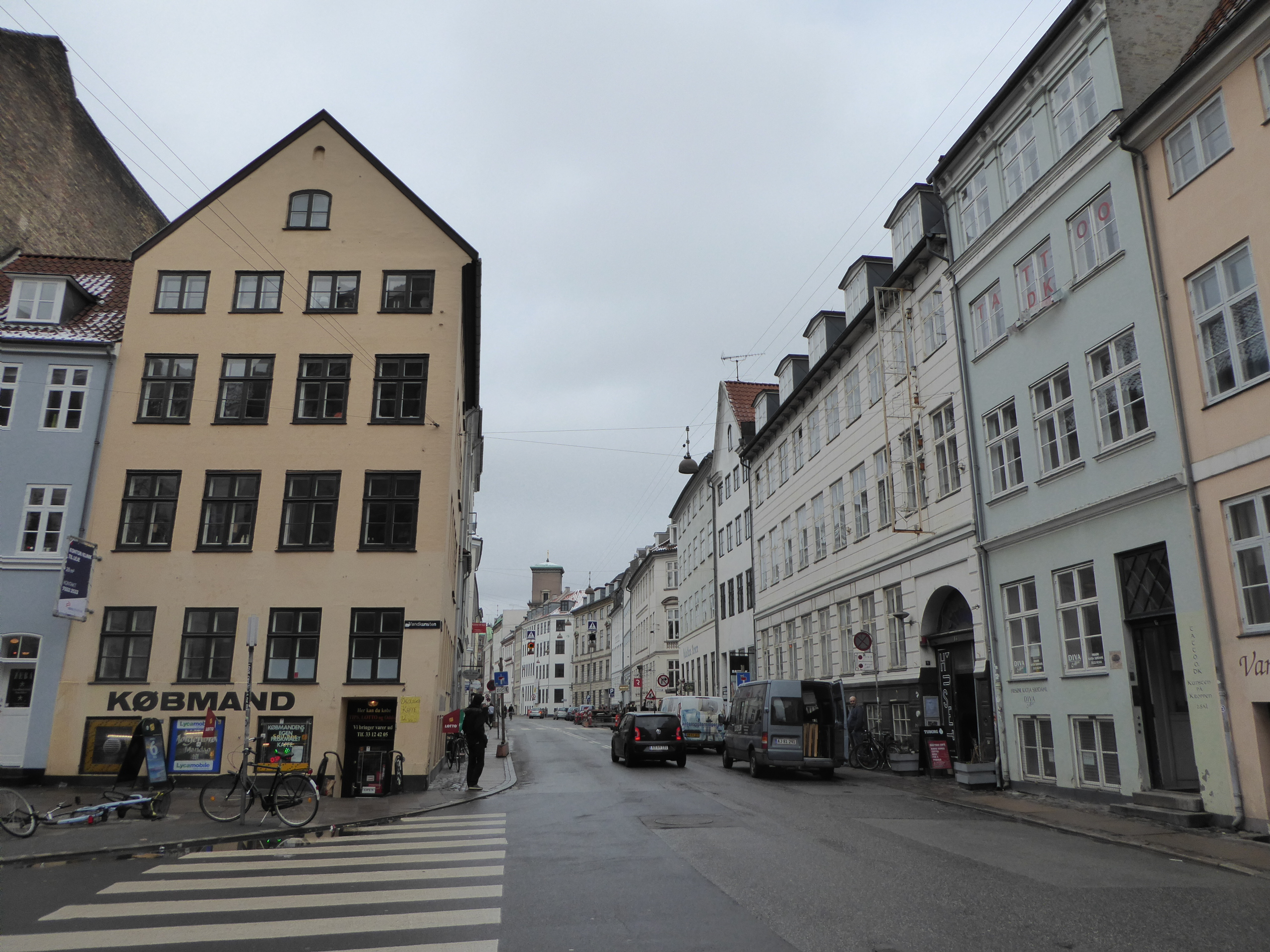 The street Rådhusstræde at Vandkunsten in Indre By in Copenhagen.